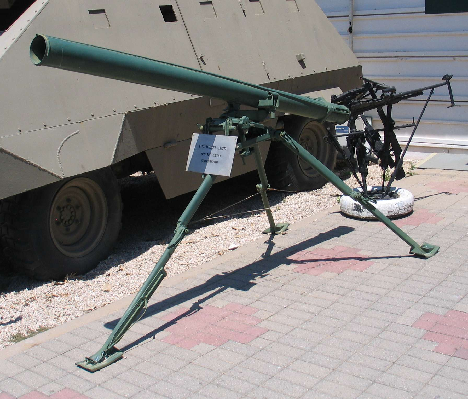 Batey ha-Osef museum, Tel Aviv, Israel. 122-mm rocket launcher.